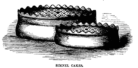 Pastry covered fruit Simnel